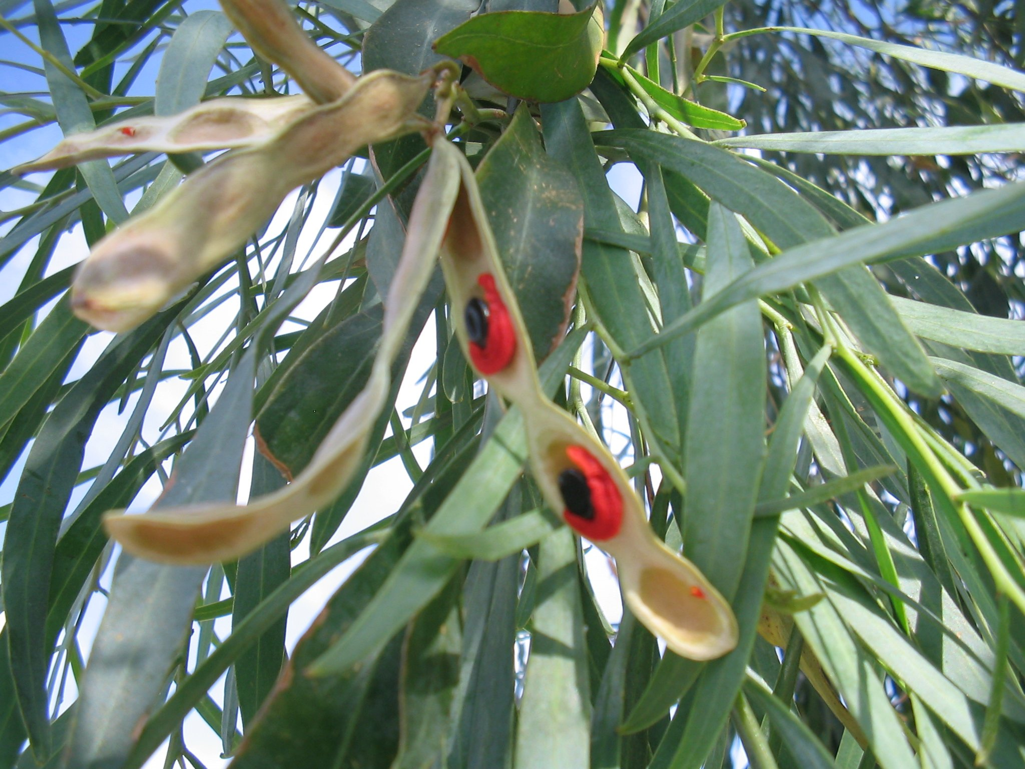 Acacia salicina Seed Pod with Seeds